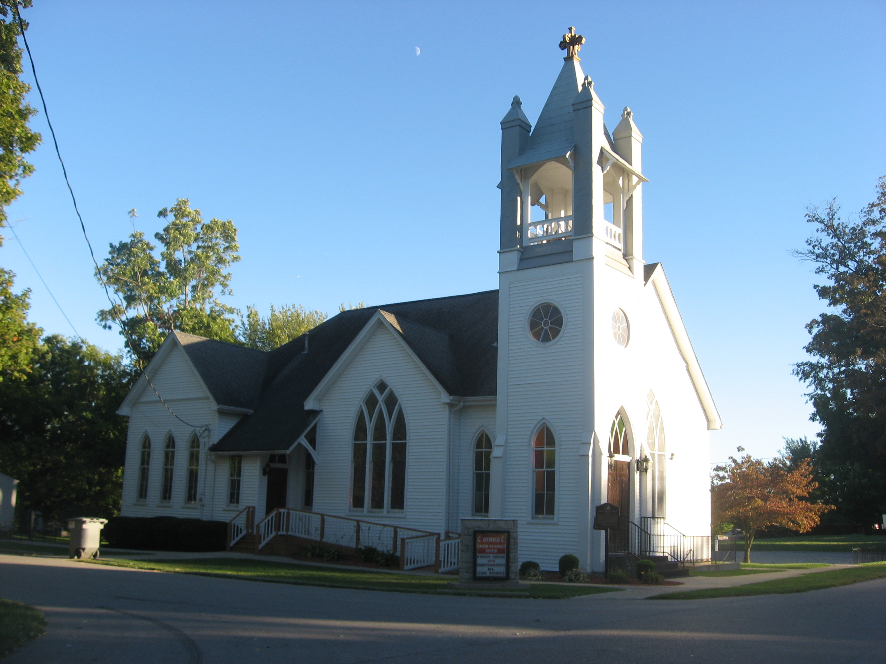 Front and western side of the Simpson Memorial United Methodist Church, located at 9449 Harrison Street in Greenville, Indiana, United States. Built in 1899, it is listed on the National Register of Historic Places.